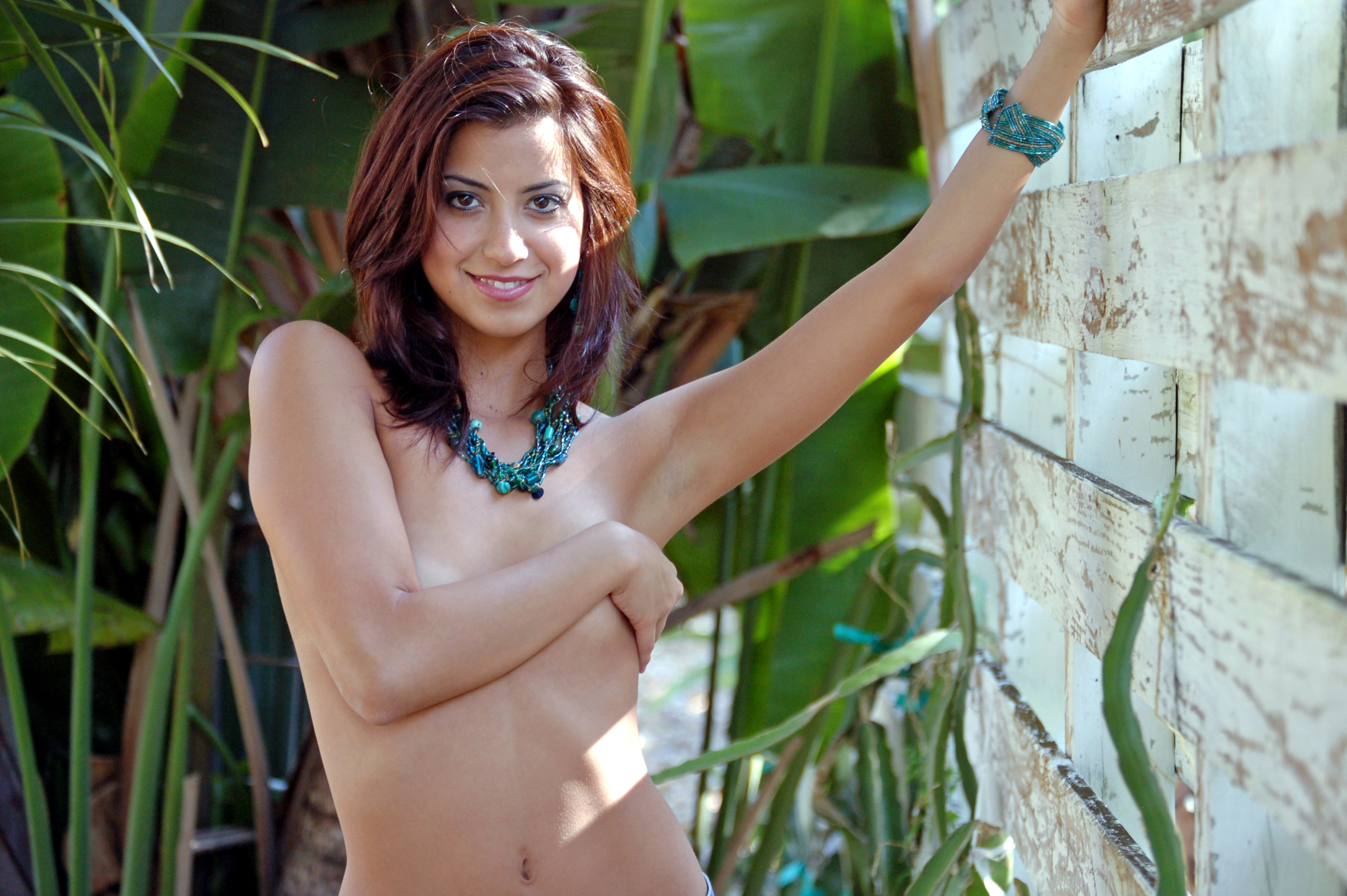 Backyard Fun!